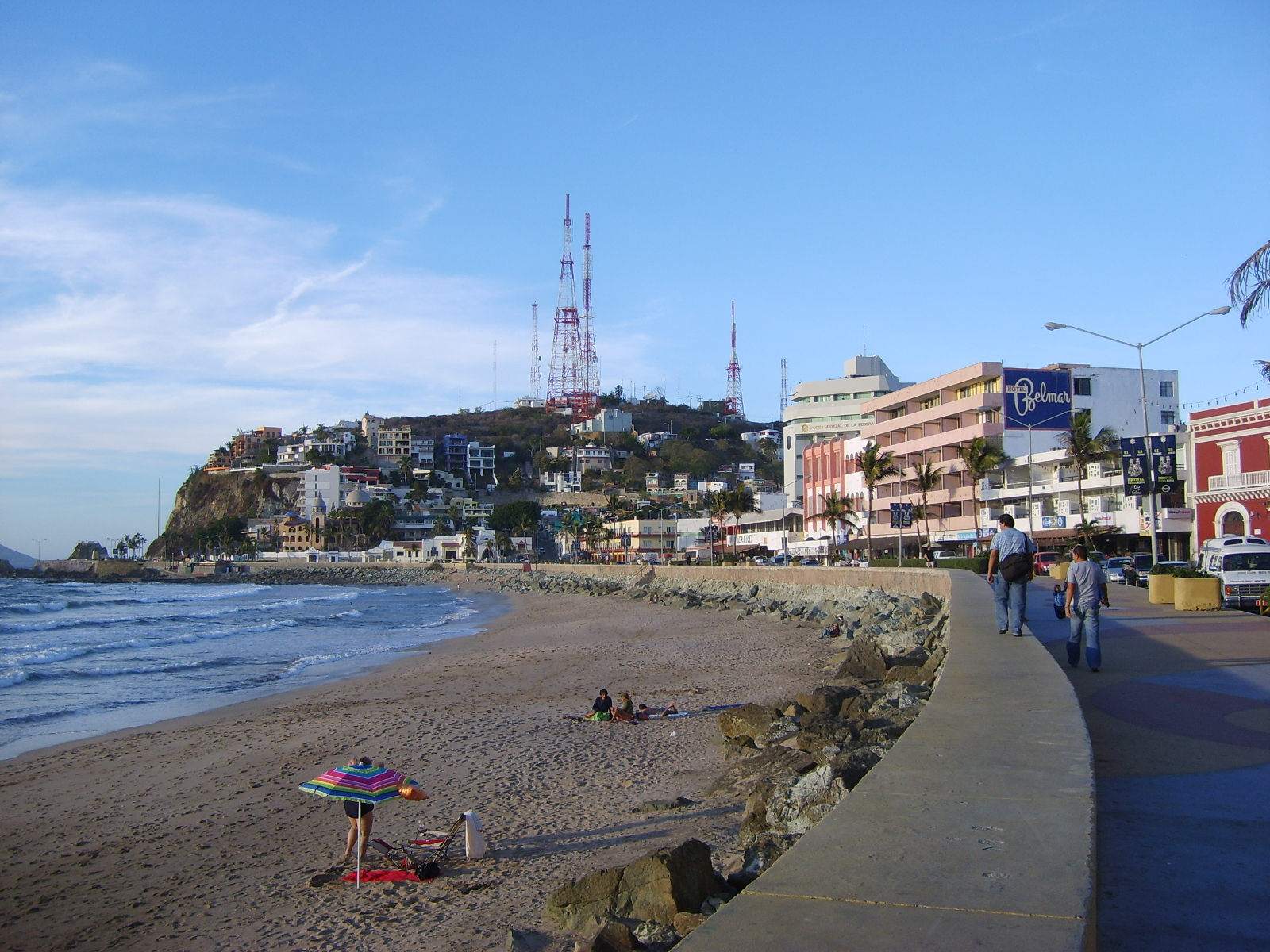 Mazatlán Olas Altas Zone